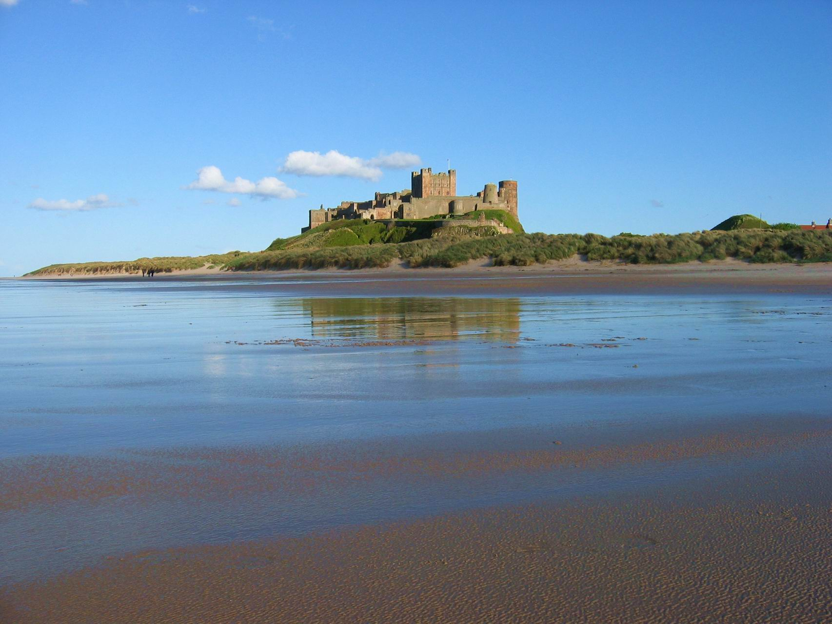 Bamburgh Castle in Northumberland, England in 2006.